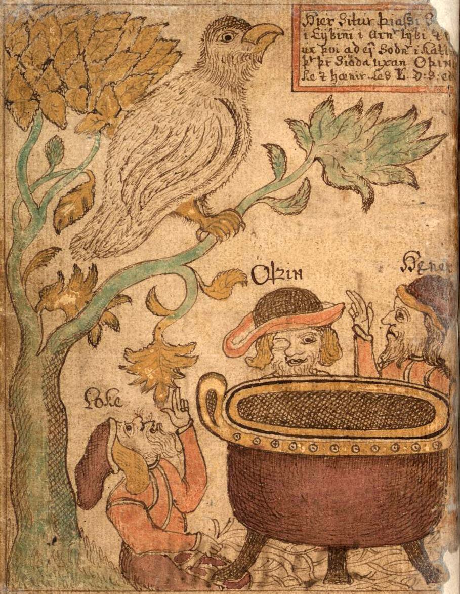 An illustration of the three gods Loki, Odin and Hœnir, as narrated in the skaldic poem Haustlöng, from an Icelandic 18th century manuscript.